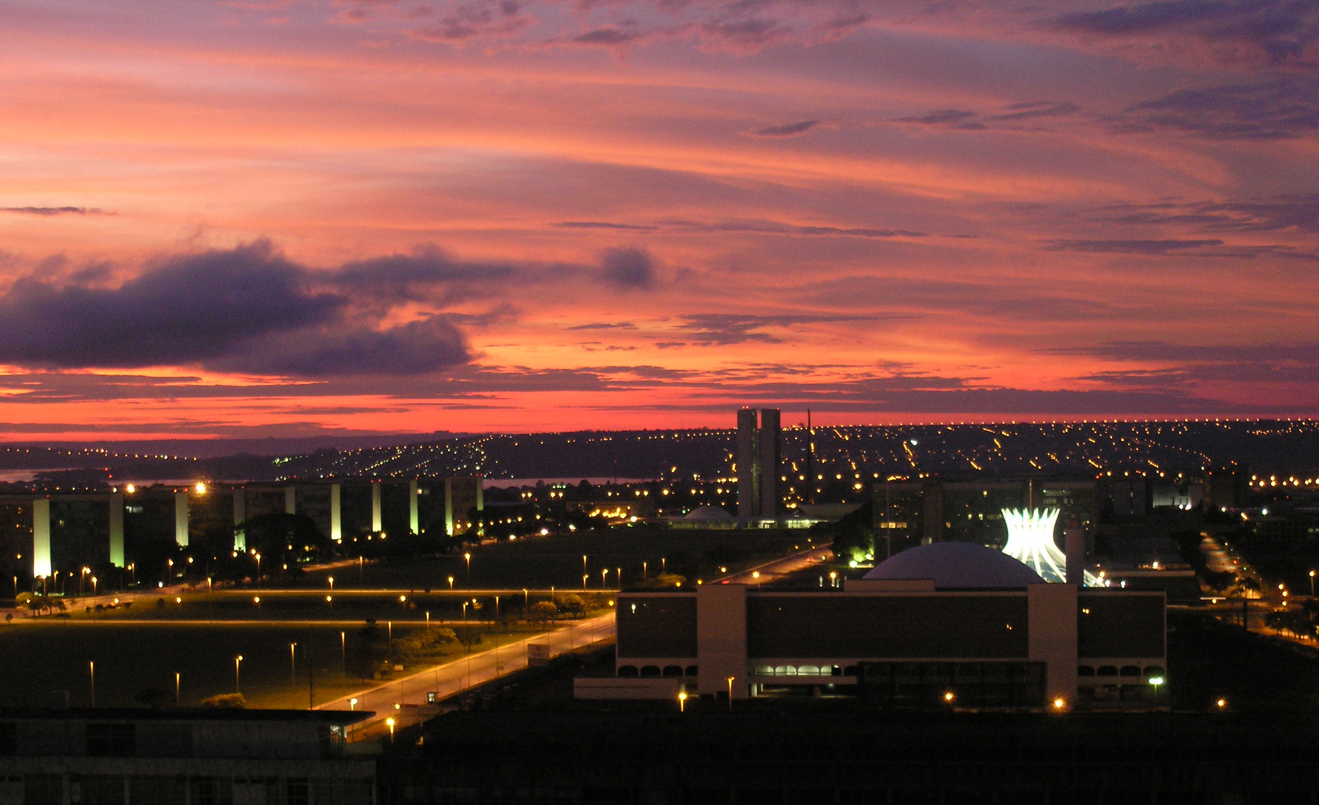 Brasilia at night.